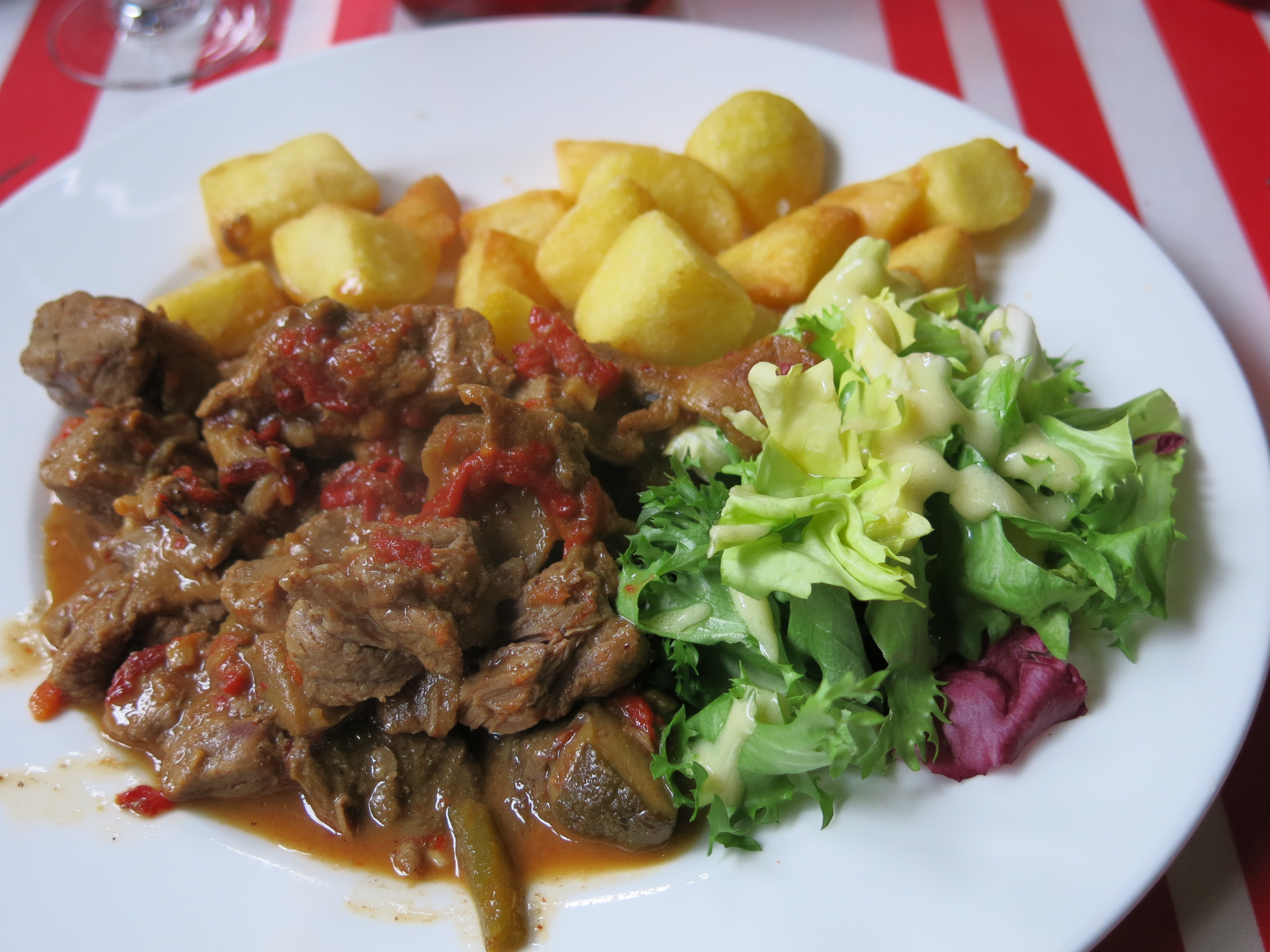 Cutted axoa (not chopped) in the restaurant la Vieille-Auberge - Chez Dédé in Saint-Jean-Pied-de-Port (Pyrénées-Atlantiques, France).